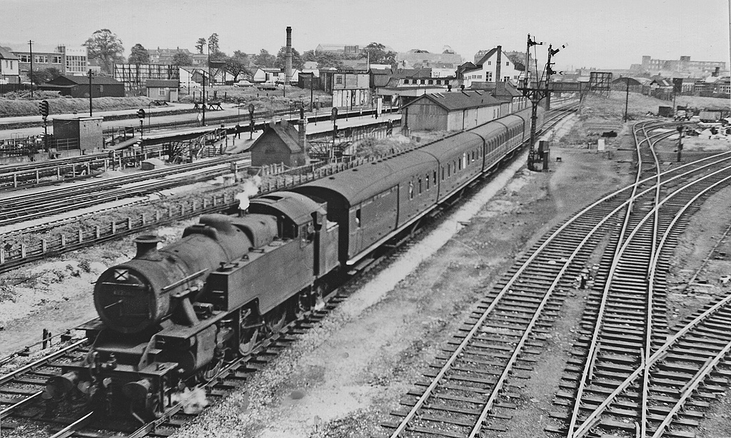 Marylebone - Wembley Stadium special Cup Final local train passing Neasden Station. View eastward, towards London Marylebone, also Baker Street; ex-Great Central (GC) Marylebone - Sheffield main line via Northolt Junction, High Wycombe and Princes Risborough. The one-way loop line serving the single-platform Wembley Stadium station turned off this line about a mile further on; it was used only when the Stadium was open and was closed on 18/5/68 being superseded by the former Wembley Hill station. The train is working the frequent service of Cup Final trains from Marylebone, which went round the circle and returned to Marylebone without reversal; the locomotive is LMS-type Fairburn 4MT 2-6-4T No. 42256. Further over is the LT Metropolitan/Bakerloo Neasden station on the main line from Baker Street (four-track from Finchley Road to Harrow-on-the Hill (to Rickmansworth from 1959) to Amersham/Aylesbury/Watford/Uxbridge/Stanmore, which was also traversed (from Wembley Park outward) by main-line GC trains from Marylebone. After 1939 when the Bakerloo Line (Jubilee since 1979)to Stanmore was opened, Metropolitan trains ceased to call at Neasden, but from 6/10 until 26/11/40 while Marylebone was isolated by damage to the Lords Tunnel, local GC trains on the Princes Risborough line terminated at a temporary station contructed where the passing train is seen here. The lines on the right are heading for the Neasden (GC) Locomotive Depot and to Neasden Junction on the North & South Western Junction (Brent Junction, Cricklewood - Acton Wells) line: Neasden Sidings are just behind the camera.